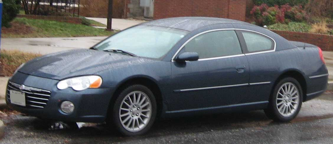 2004-2005 Chrysler Sebring photographed in College Park, Maryland, USA.